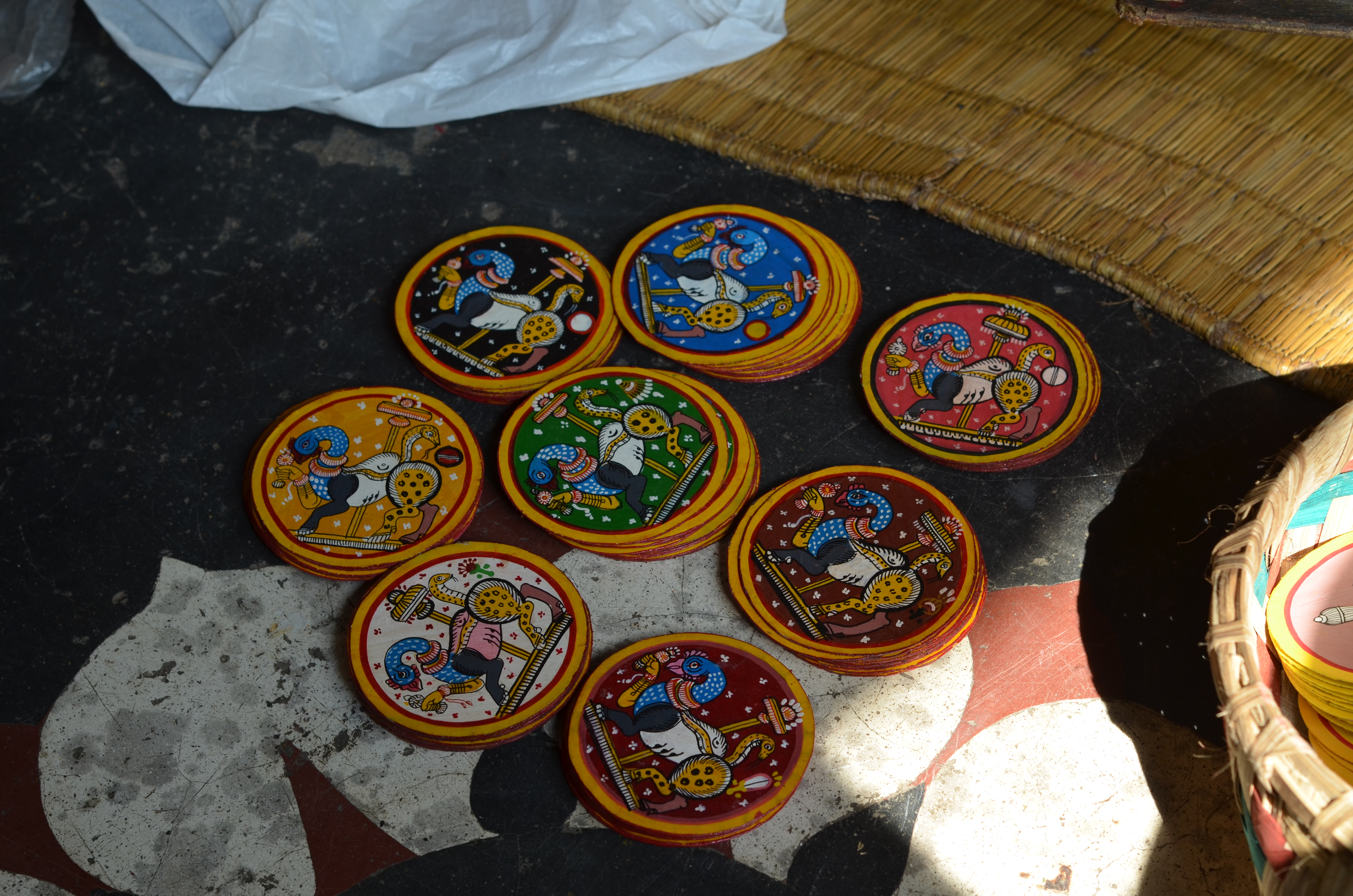 Ganjapa is a traditional game from the Indian state of Odisha. Atharangi ganjapa has cards of eight colors. Each color has 12 cards that make 96 cards totally.